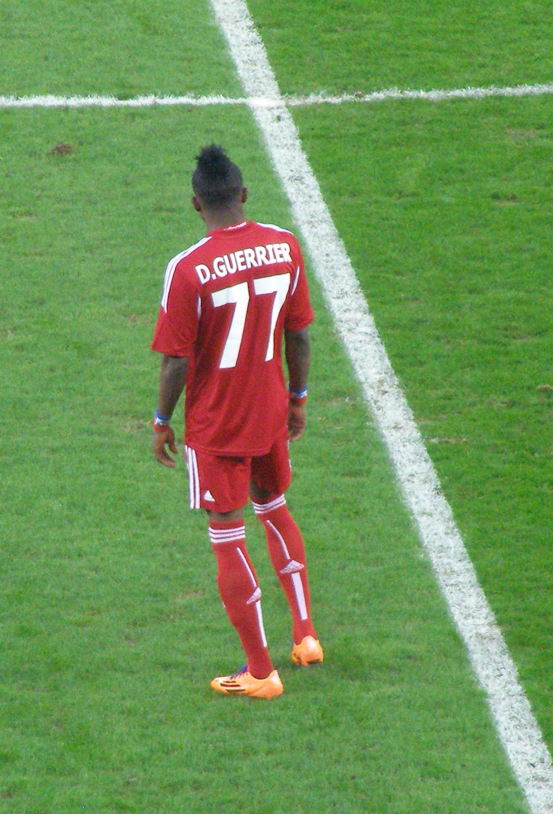 Gdańsk - the Ekstraklasa match Lechia Gdańsk vs. Wisła Kraków at PGE Arena stadium; Wilde-Donald Guerrier (Wisła)